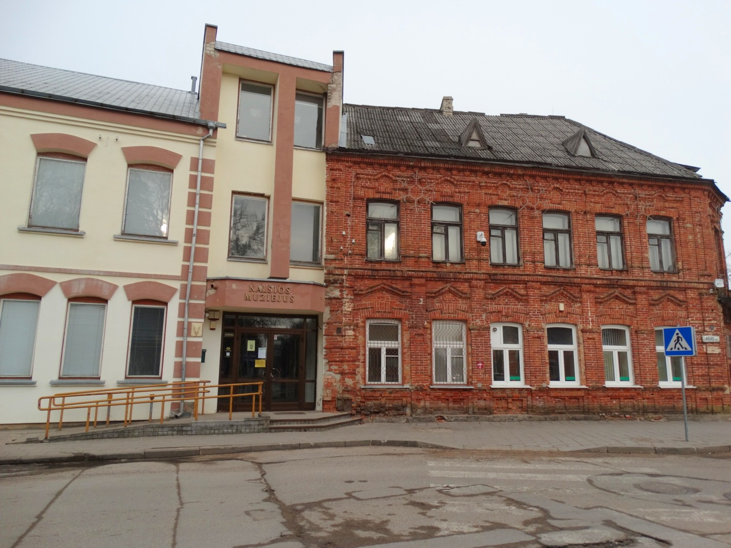 Nalšia museum, Švenčionys, Lithuania